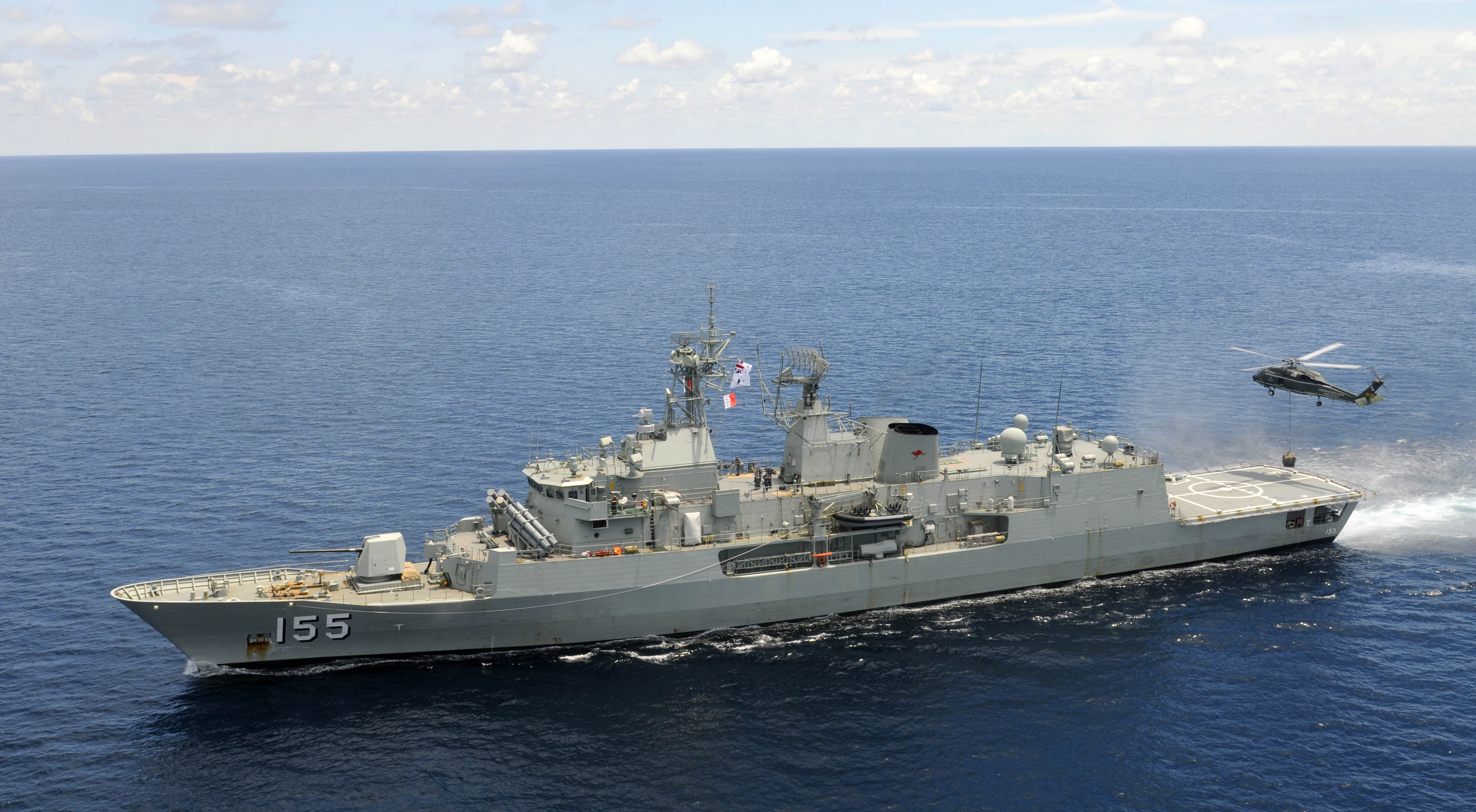 An SH-60F Sea Hawk helicopter takes cargo from Royal Australian Navy frigate HMAS Ballarat (FF 155) while transiting in the South China Sea.